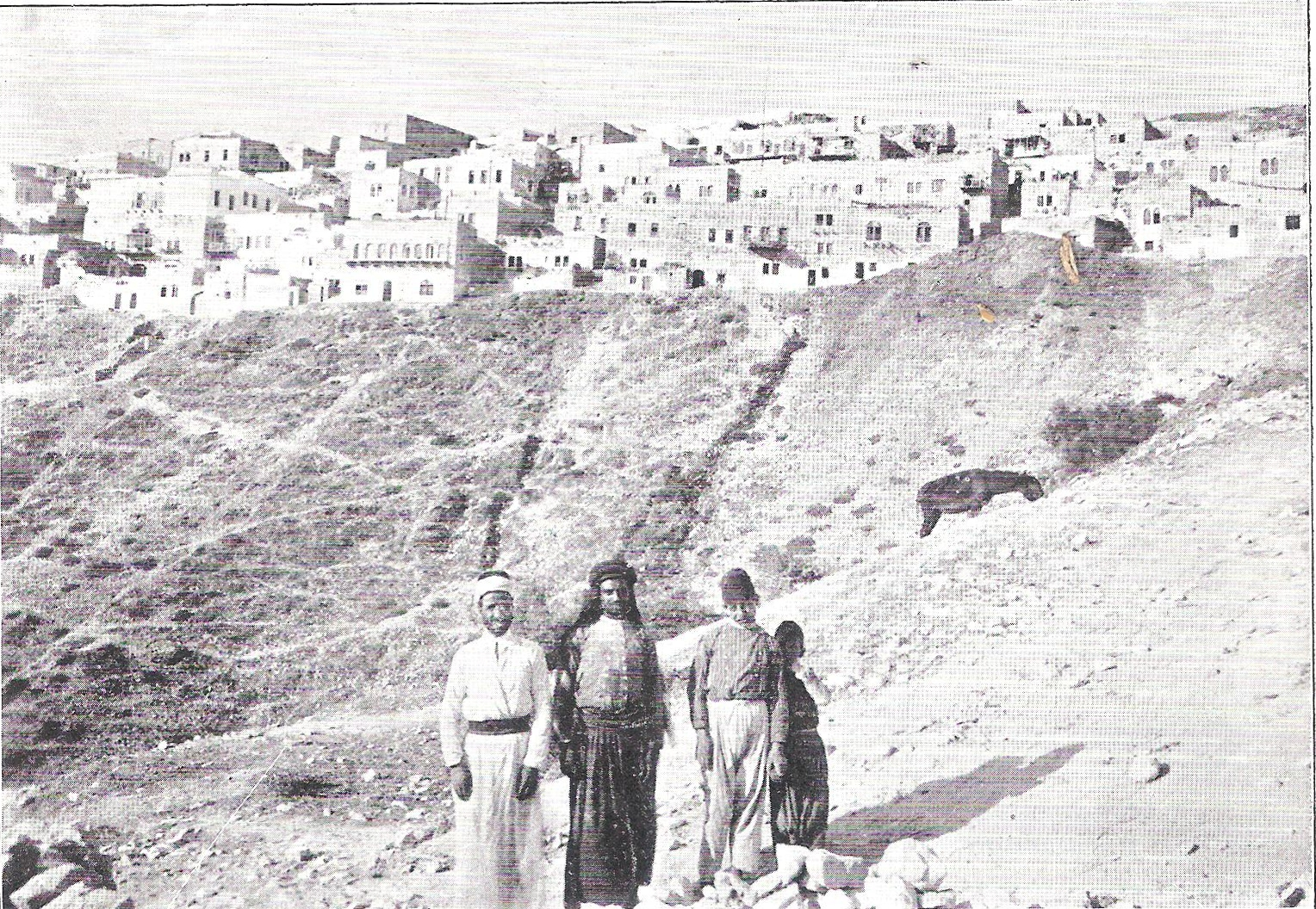 Safed from a book published in Ottoman Palestine in 1899